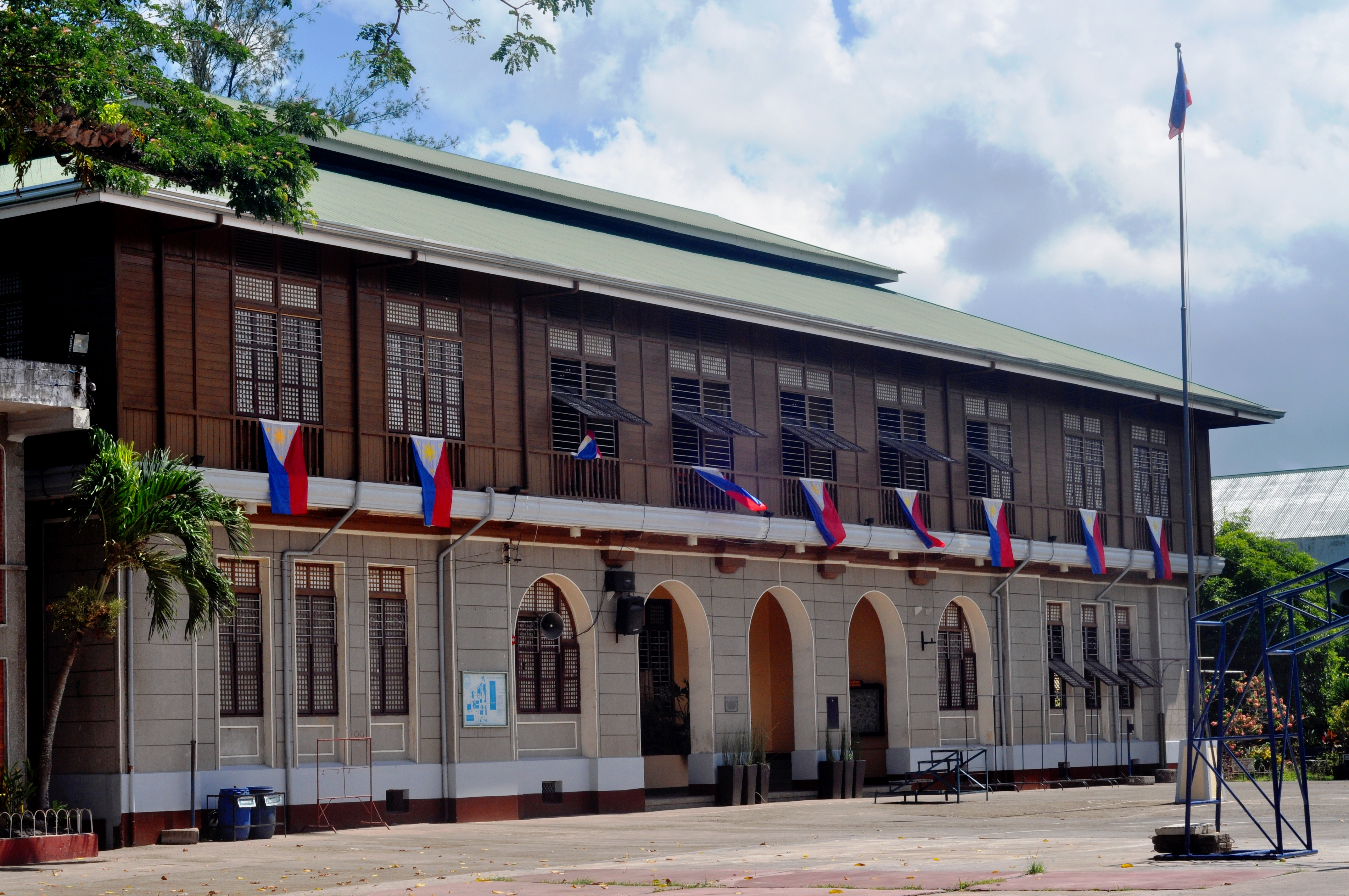 Camarines Sur National High School front